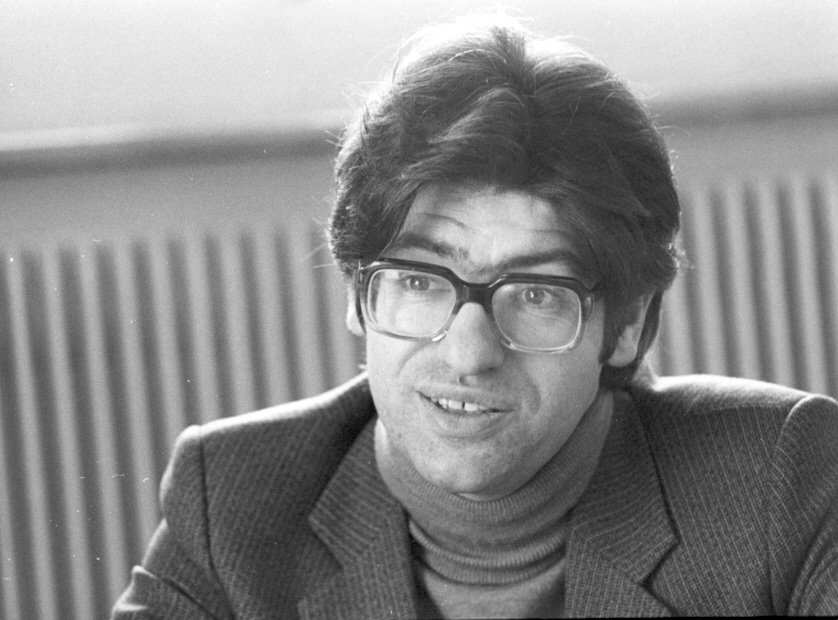 Alfred Neukomm, Swiss politician